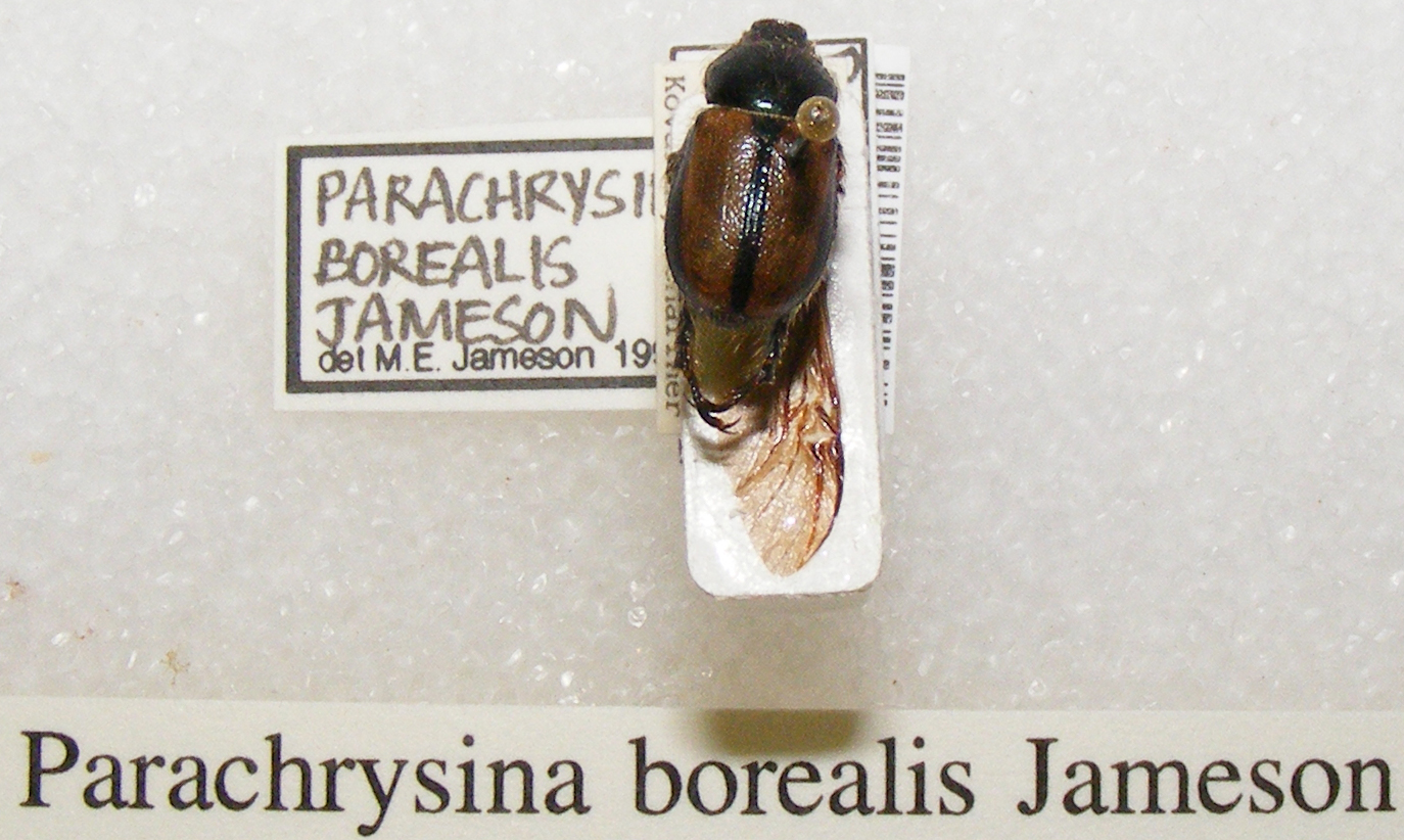 Parachrysina borealis adult from the Texas A&M University Insect Collection